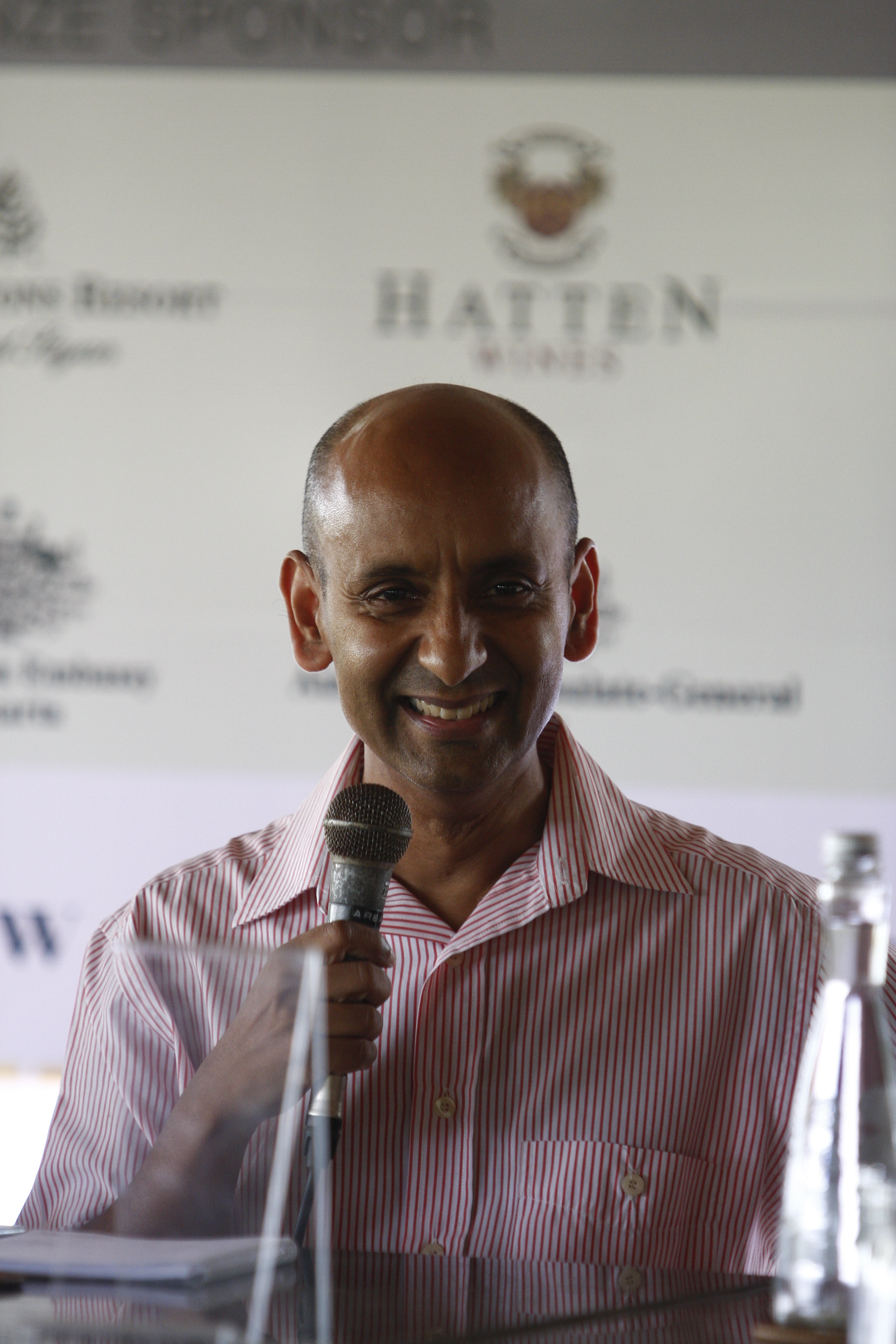 Ubud Writers & Readers Festival 2012. Image credit Stanny Angga.